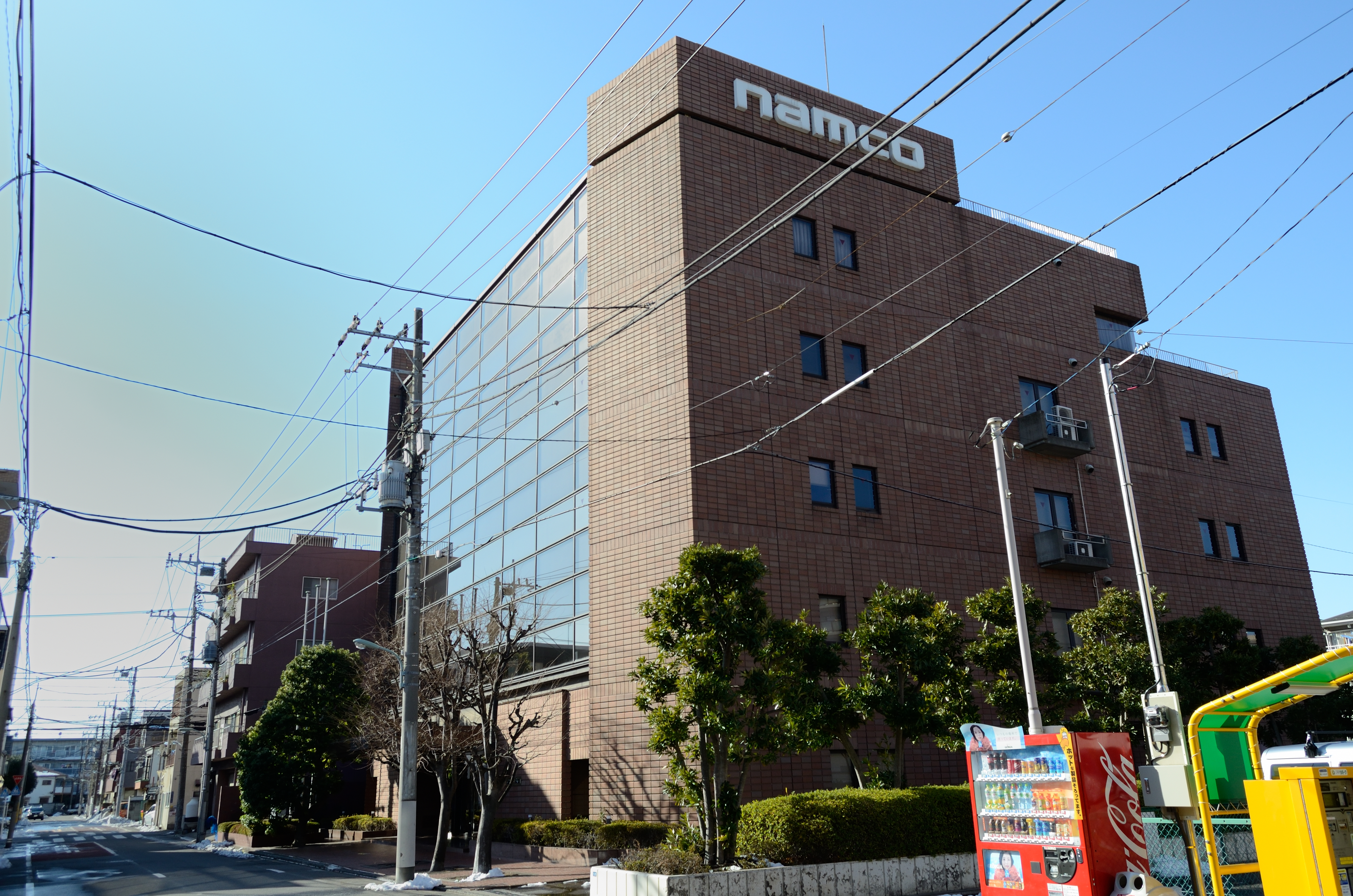 namco's former headquarters building (1985-2014) at Yaguchi, Ōta, Tokyo. Demolished in 2017.